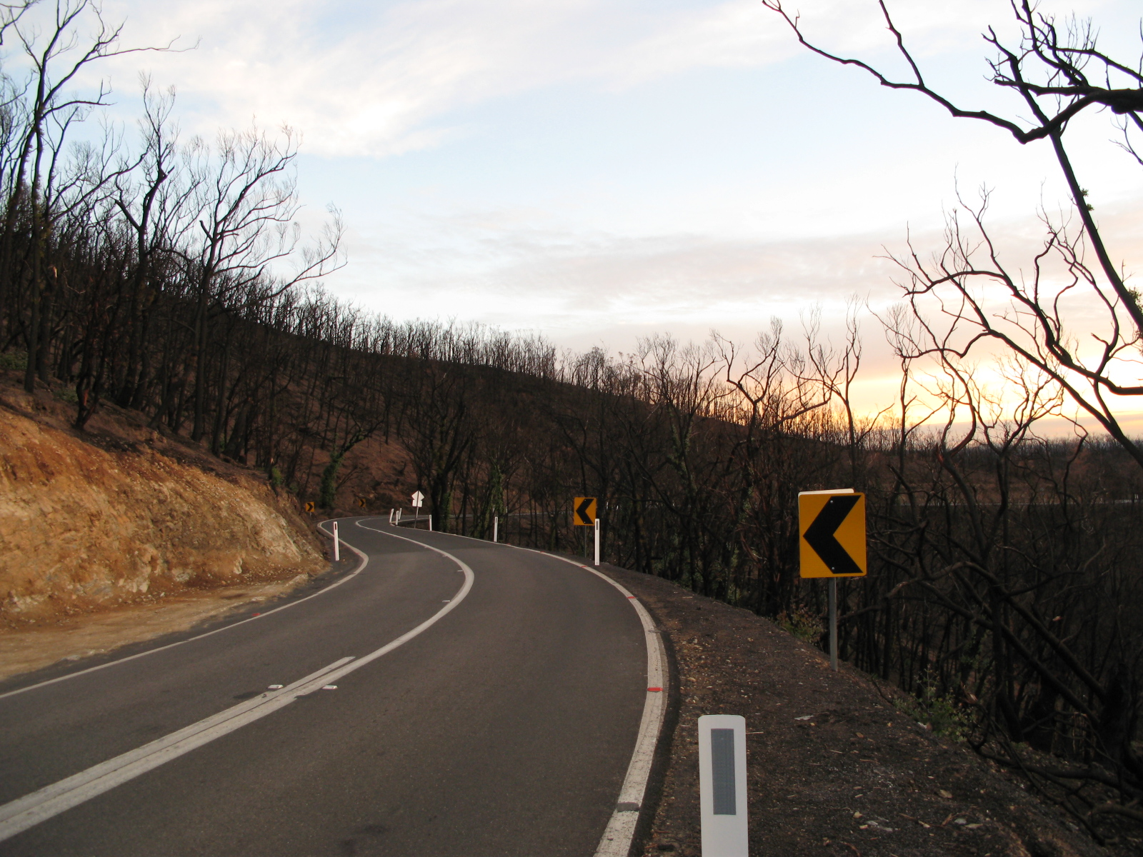 St. Andrews - Kinglake Road, halfway between the two towns. Photo taken by myself in late April 2009.